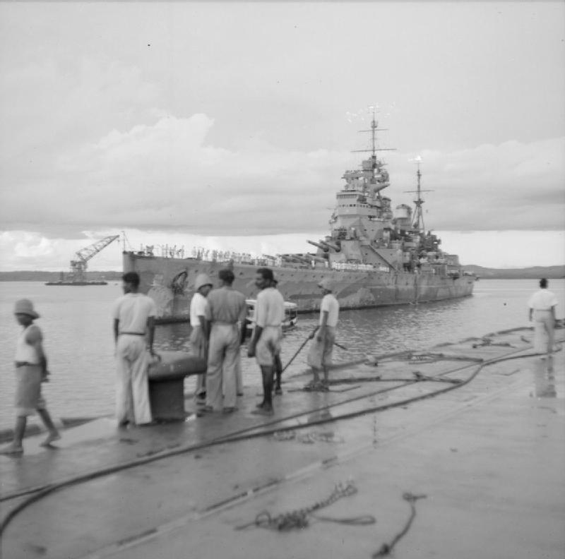 The British Army in Malaya 1941 HMS 'Prince of Wales', flagship of Force Z, approaching her berth at the Singapore naval base, 2 December 1941.